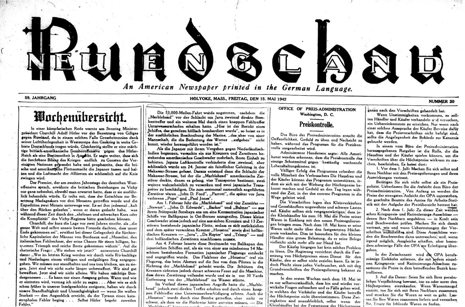 The masthead of the Neu England Runschau or "The New England Review", a German-language newspaper published in Holyoke, Massachusetts in the late 19th and early 20th centuries. The full issue may be seen on the Internet Archives, here.